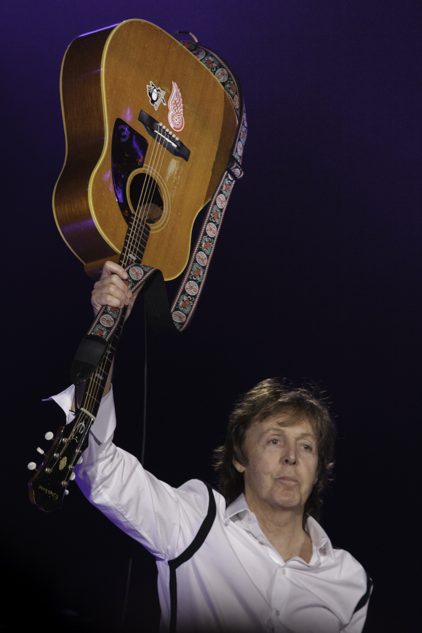 Paul McCartney, Saturday 19 April, Centenario Stadium, Montevideo, Uruguay. Out There tour, including performances at the Movistar Arena in Santiago, Chile (Monday 21 and Tuesday 22), then in Peru, Ecuador and Costa Rica. Repertoire with several Beatles classics, some songs as Macca soloist, and songs from New his 2013 album produced by Mark Ronson, Paul Epworth and Giles Martin. This is the second visit of the former Beatle to Montevideo. His unforgettable debut at Centennial was in 2012, the On The Run tour, included songs from her jazzy album Kisses on the Bottom standards: Paul McCartney, sábado 19 de abril, estadio Centenario de Montevideo, Uruguay. Gira Out There, que incluye presentaciones en el Movistar Arena de Santiago de Chile (el lunes 21 y martes 22), y luego en Perú, Ecuador y Costa Rica. Repertorio con varios clásicos de los Beatles, algunos temas como solista de Macca, y también canciones de New, su álbum de 2013 producido por Mark Ronson, Paul Epworth y Giles Martin. Se trata de la segunda visita del ex beatle a Montevideo. Su inolvidable debut en el Centenario fue en 2012, dentro de la gira On The Run, que incluía canciones de su álbum de standards jazzeros Kisses on the Bottom: The Band: Paul McCartney: Lead Vocals, Bass, Acoustic Guitar, Piano, Electric Guitar, Ukulele. Rusty Anderson: Backing Vocals, Electric Guitar, Acoustic Guitar. Brian Ray:(Backing Vocals, Bass, Electric Guitar, Acoustic Guitar, Tambourine. Paul Wickens: Backing Vocals, Keyboards, Electric Guitar, Percussion, Harmonica. Abe Laboriel, Jr.: Backing Vocals, Drums, Bass, Percussion. Camera: Canon EOS 5D Mark II 1 ISO: 2000